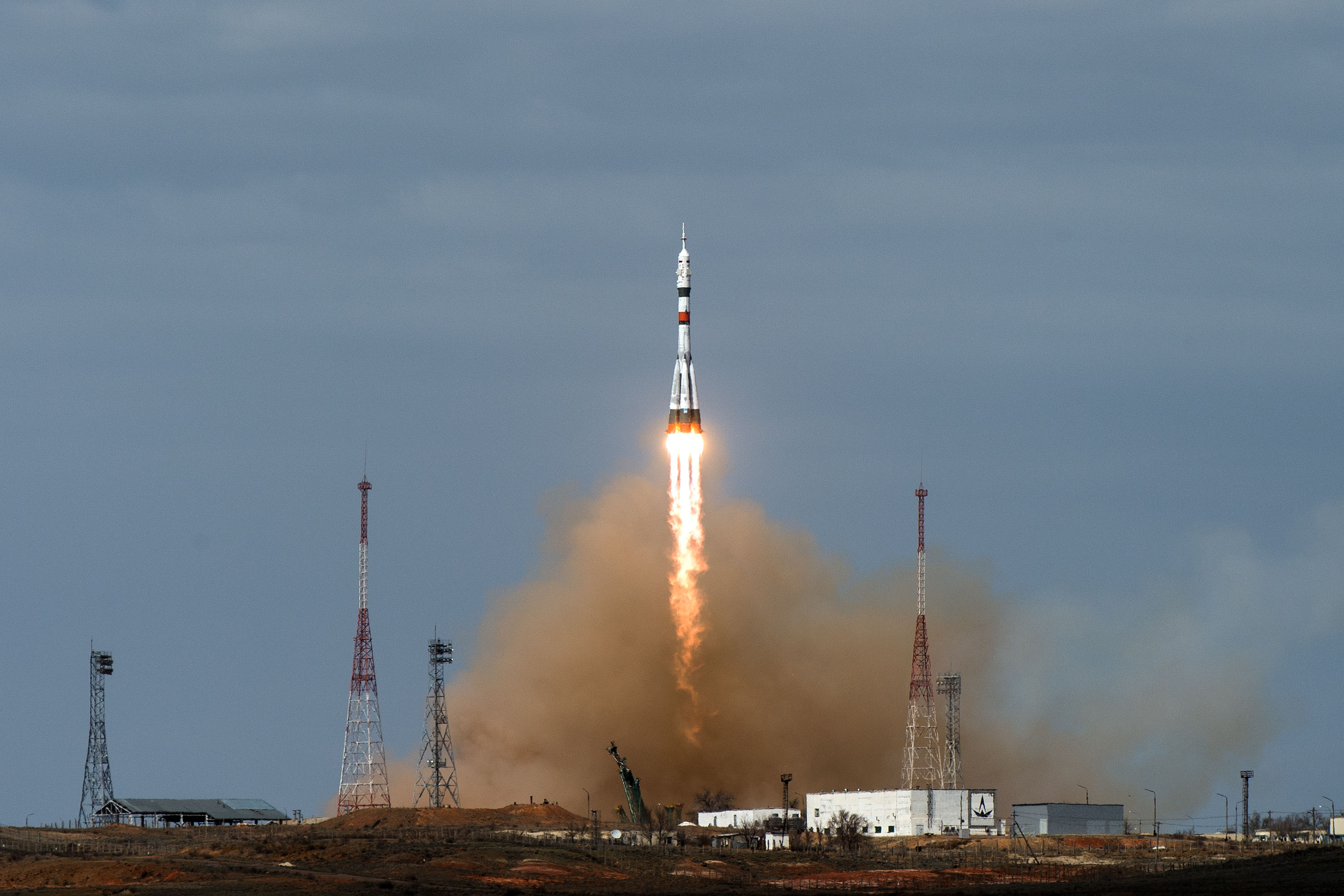 Expedition 63 Launch - The Soyuz MS-16 lifts off from Site 31 at the Baikonur Cosmodrome in Kazakhstan Thursday, April 9, 2020 sending Expedition 63 crewmembers Chris Cassidy of NASA and Anatoly Ivanishin and Ivan Vagner of Roscosmos into orbit for a six-hour flight to the International Space Station and the start of a six-and-a-half month mission.